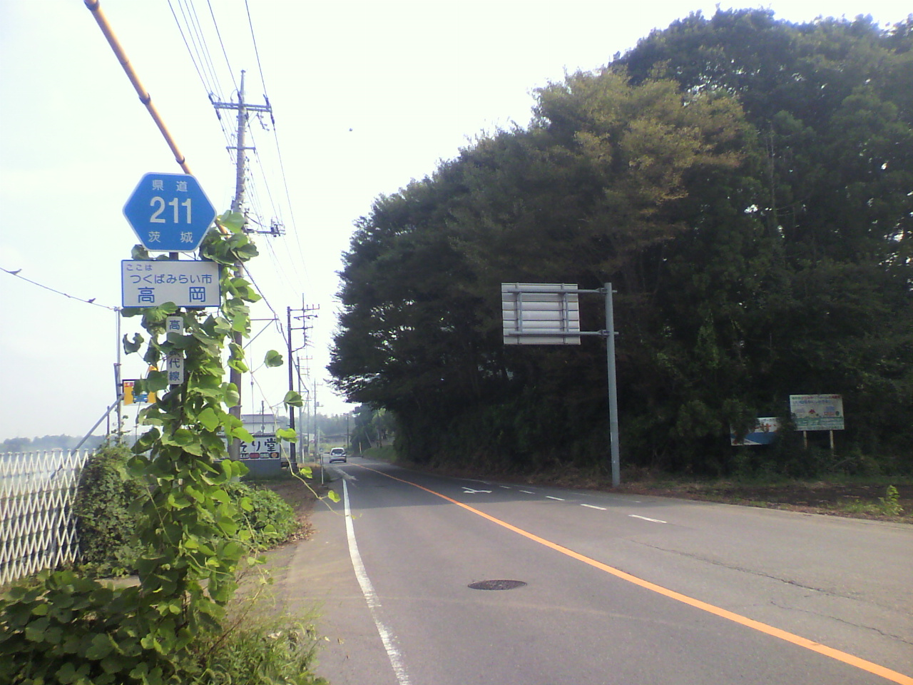 This is a landscape of Ibaraki prefectural road No. 221 Takaoka-Fujishiro Line.